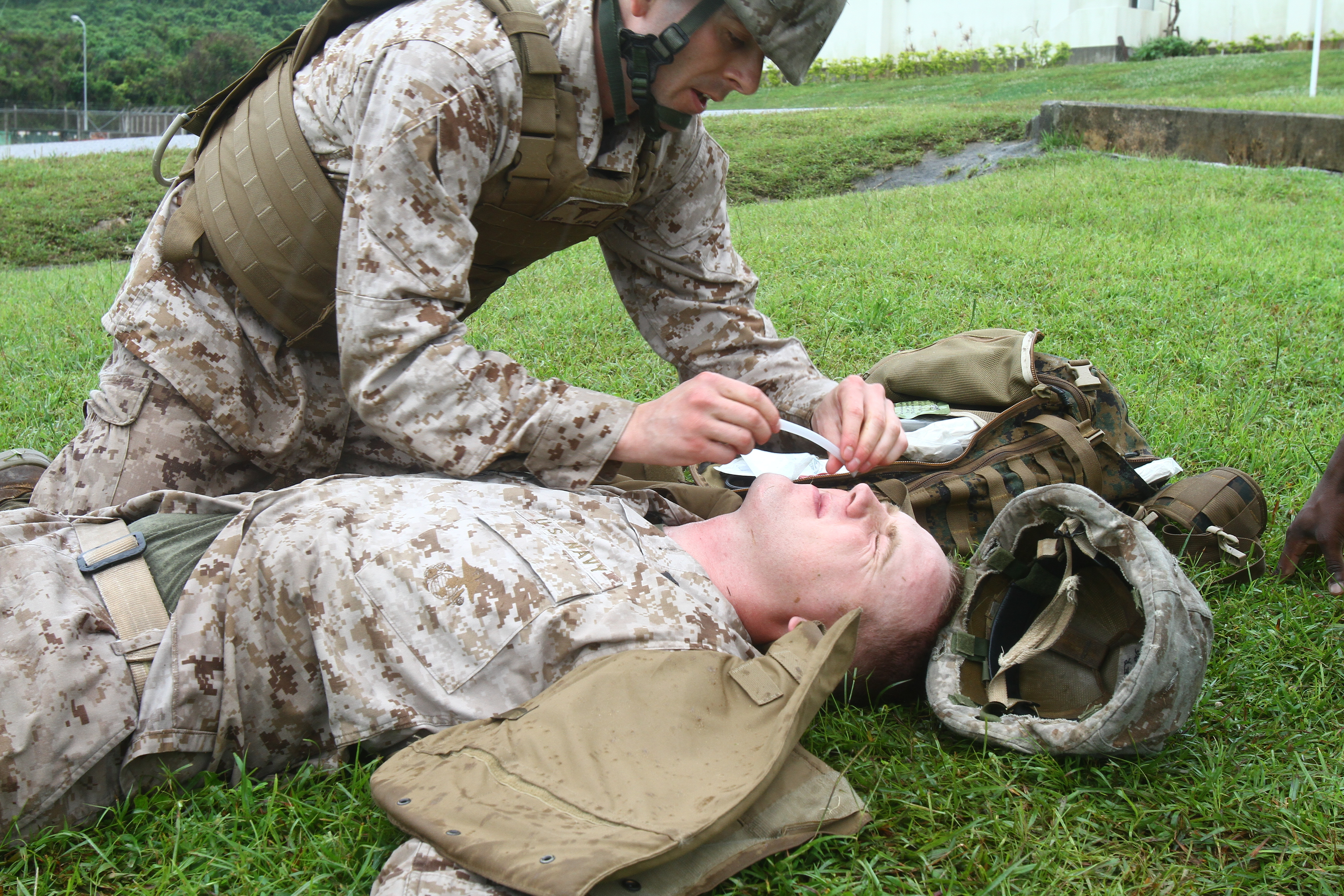 Petty Officer 3rd Class Benjamin J. Martin simulates applying a nasopharyngeal airway to Petty Officer 3rd Class John A. Eller during tactical combat casualty care training May 16 at Camp Foster. Corpsman must complete the course annually in order to maintain proficiency and remain prepared to respond appropriately to a vast array of contingencies across the region. Martin and Eller are hospital corpsmen with 3rd Medical Battalion, which is part of 3rd Marine Logistics Group, III Marine Expeditionary Force.